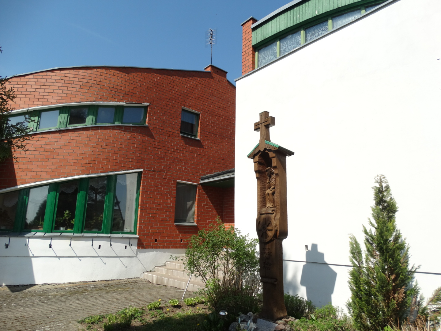 St. Catherine monastery (Congregatio Sororum S. Catharinae V. et M.; CSC) Krakės, Kėdainiai district, Lithuania